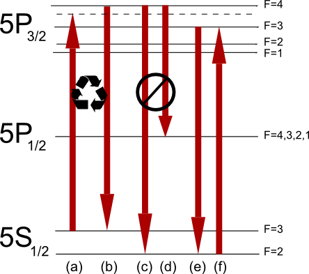 A diagram showing the laser needed for the magneto-optical trapping of Rubidium 85 including the cooling cycle and the forbidden transitions which make it a closed optical cycle, and the repumper laser needed to recouple dark states.